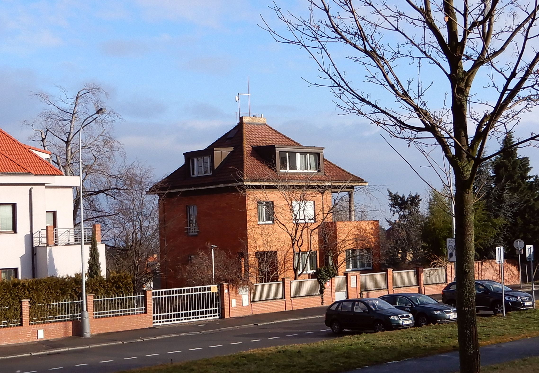 Villa of painter Miloslav Holý, Střešovická street 54, Prague 6 - Střešovice